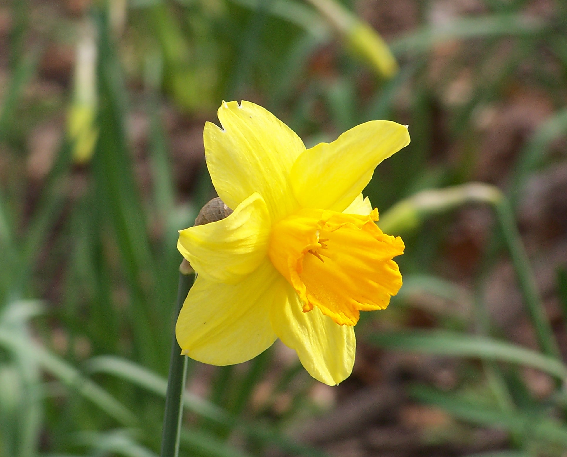 Flower of a Narcissus (front) (not typical of Narcissus pseudonarcissus, probably a cultivar)